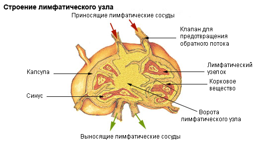 Lymph node